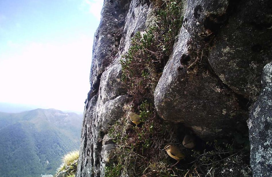 Rock wren fledglings in Kahurangi National Park